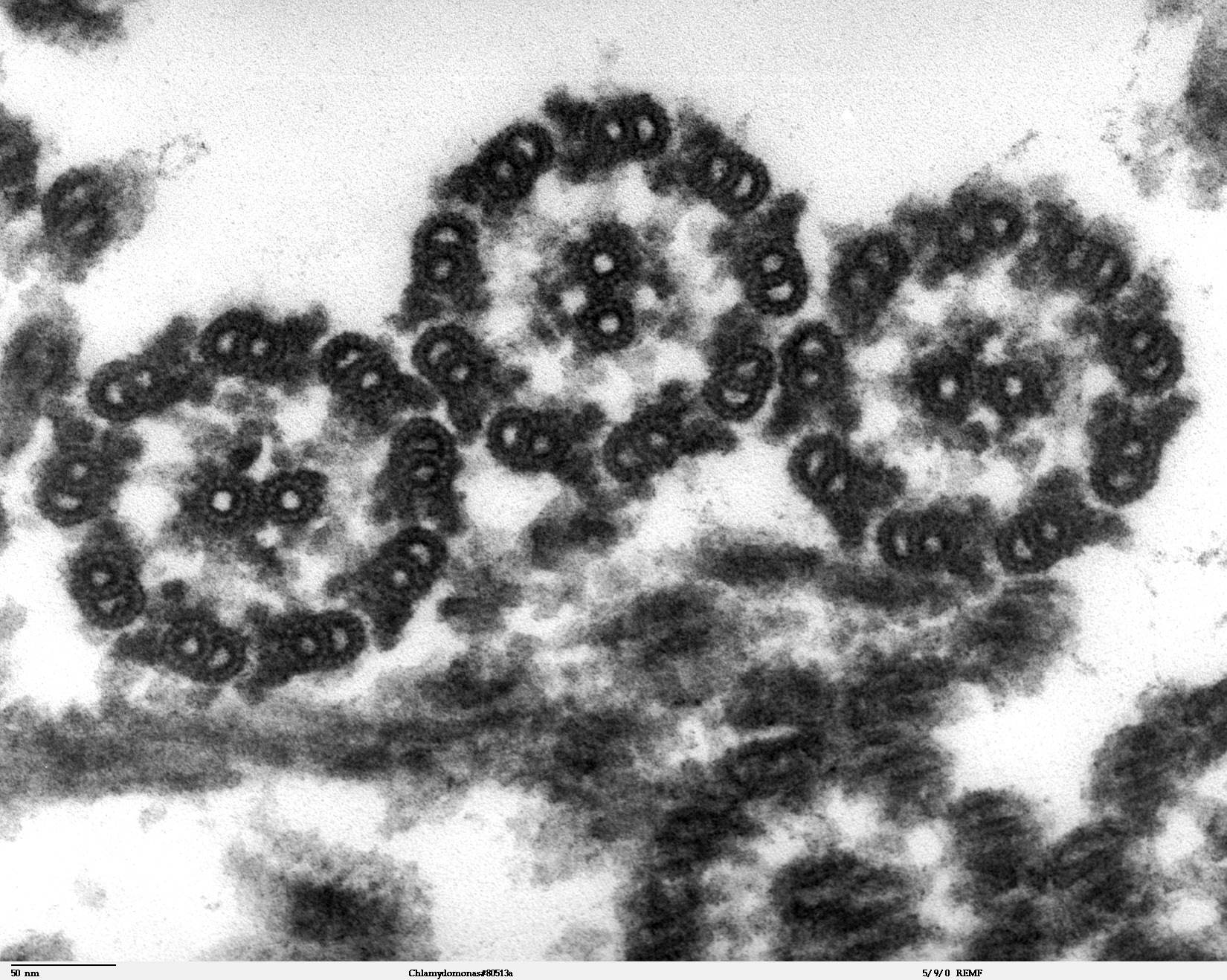 Transmission electron microscope image, showing an example of green algae (Chlorophyta). Chlamydomanas reinhardtii is a unicellular flagellate used as a model system in molecular genetics work and flagellar motility studies. This image is a thin x-section cut through the isolated axoneme. Chlamydomonas flagella have the "9+2" structure characteristic of all eukaryotic cells. The axoneme has a central unit containing two single microtubules and nine peripheral doublet microtubules (known as the "9+2"). Dynein sidearms project from the A tubule of each doublet. Also visible in this image are the radial spokes and the inner sheath.